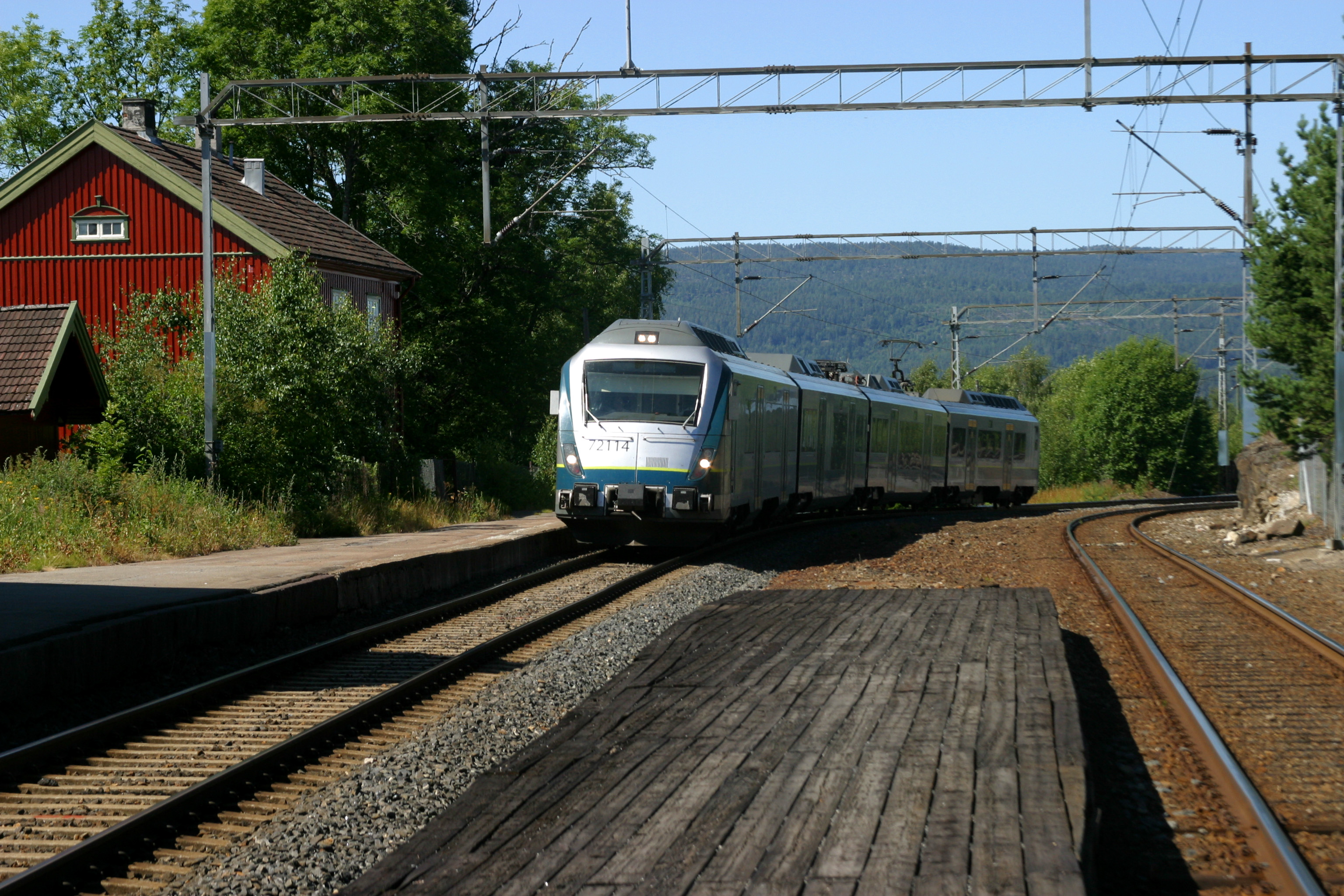 Picture of Skollenborg Railway Station (Norway)